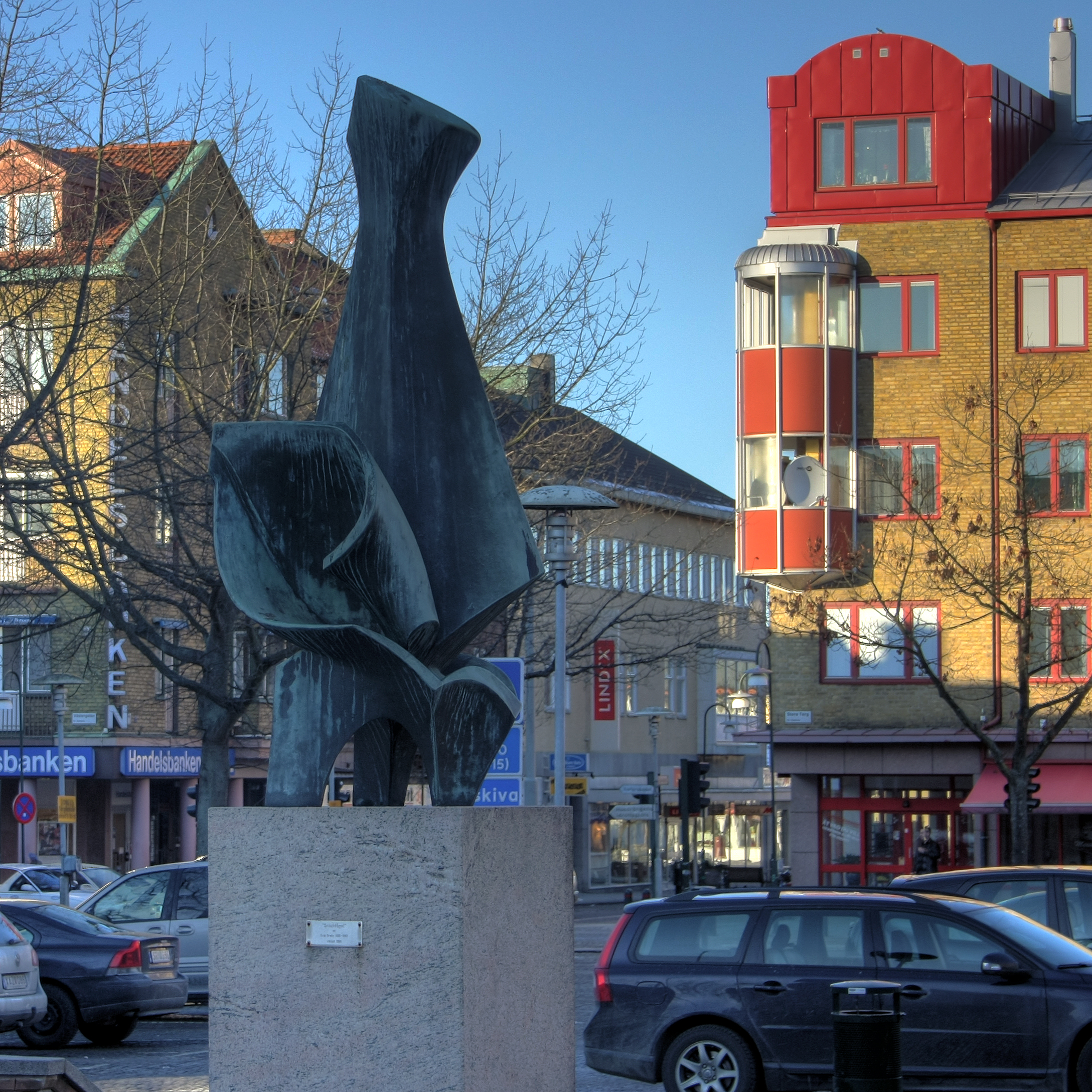 Snäckfågel, public sculpture in Eslöv, Sweden, by Eric Grate.